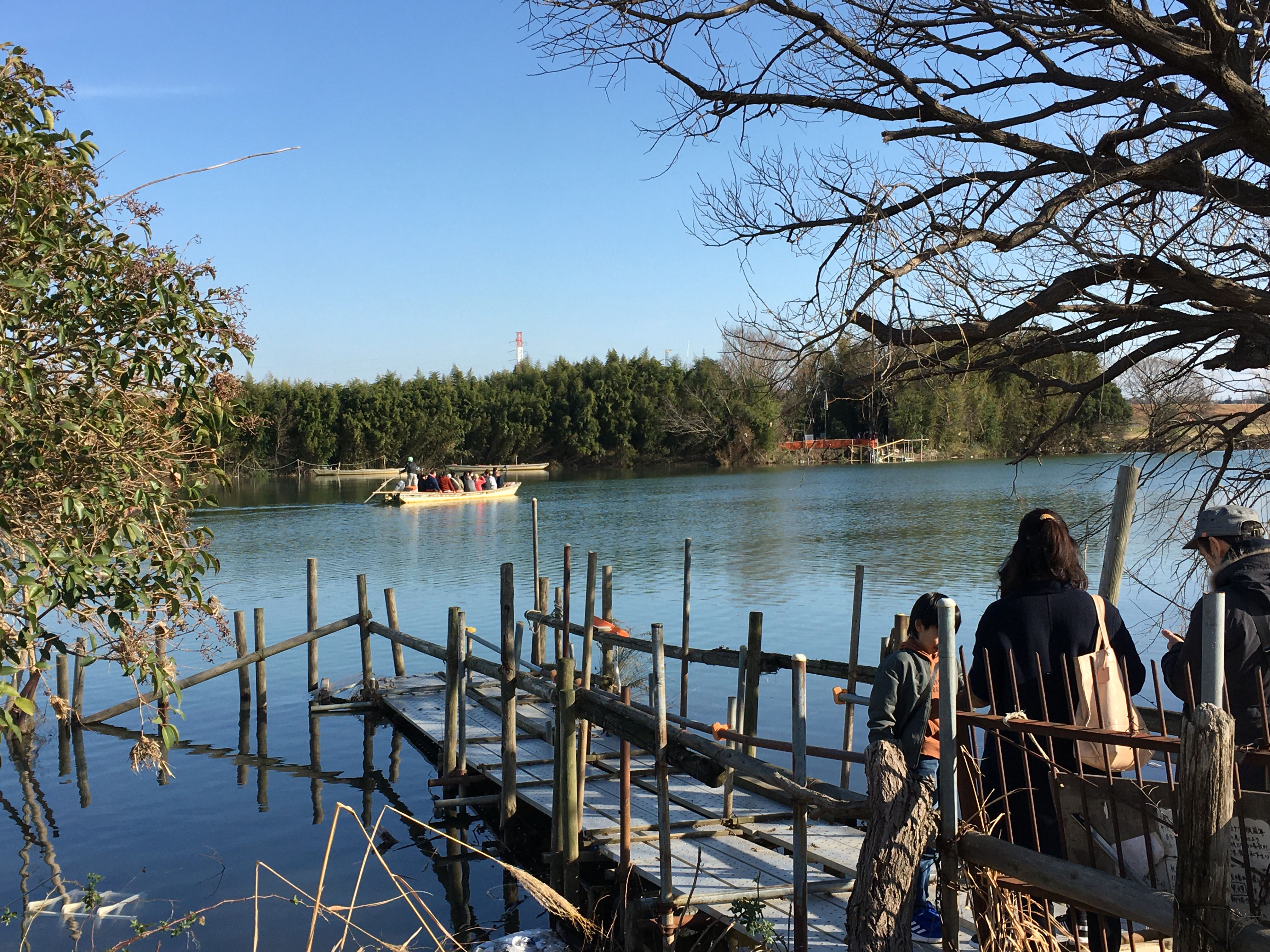 Small ferryboat which go back and forth between Yagiri and Shibamata across the Edo river in Tokyo, Japan.